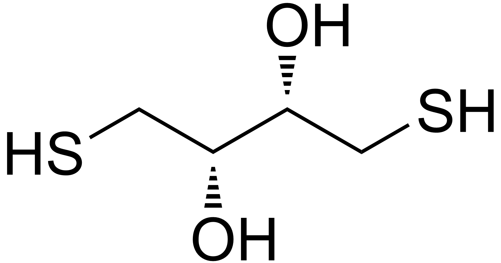 chemical structure of dithiothreitol